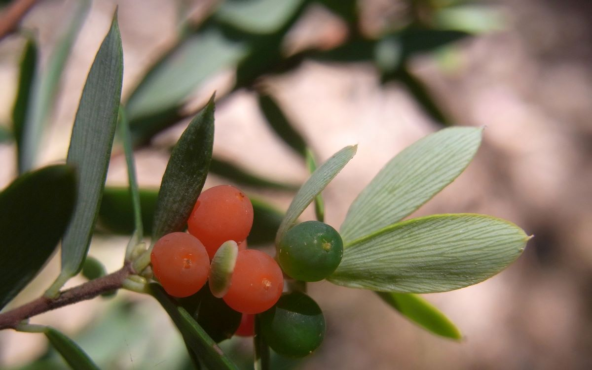 Heath plant, Stapelton Park, Avalon NSW. 6 metres tall. Possibly Monotoca elliptica